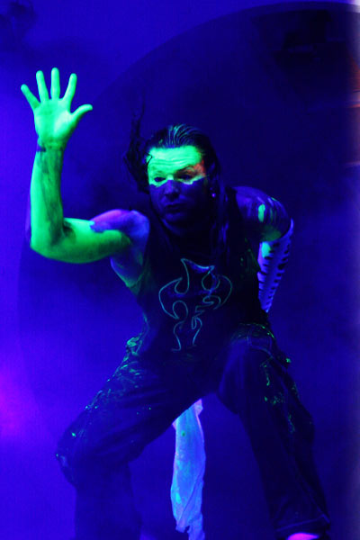 Jeff Hardy under his 'Charasmatic Enigma' gimmick, during his stint in TNA Wrestling, in 2005.